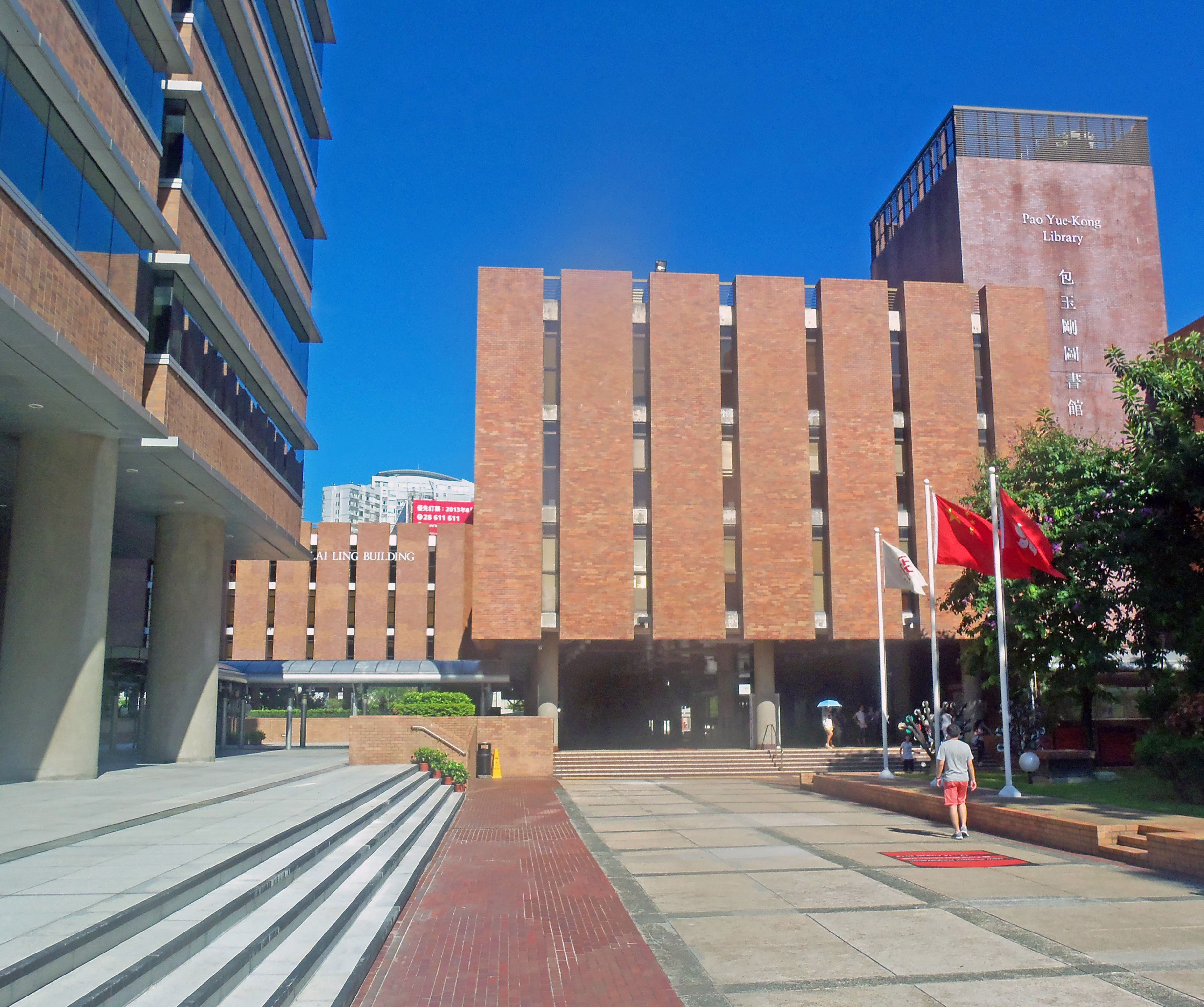 Pao Yue-Kong Library, Hong Kong Polytechnic University